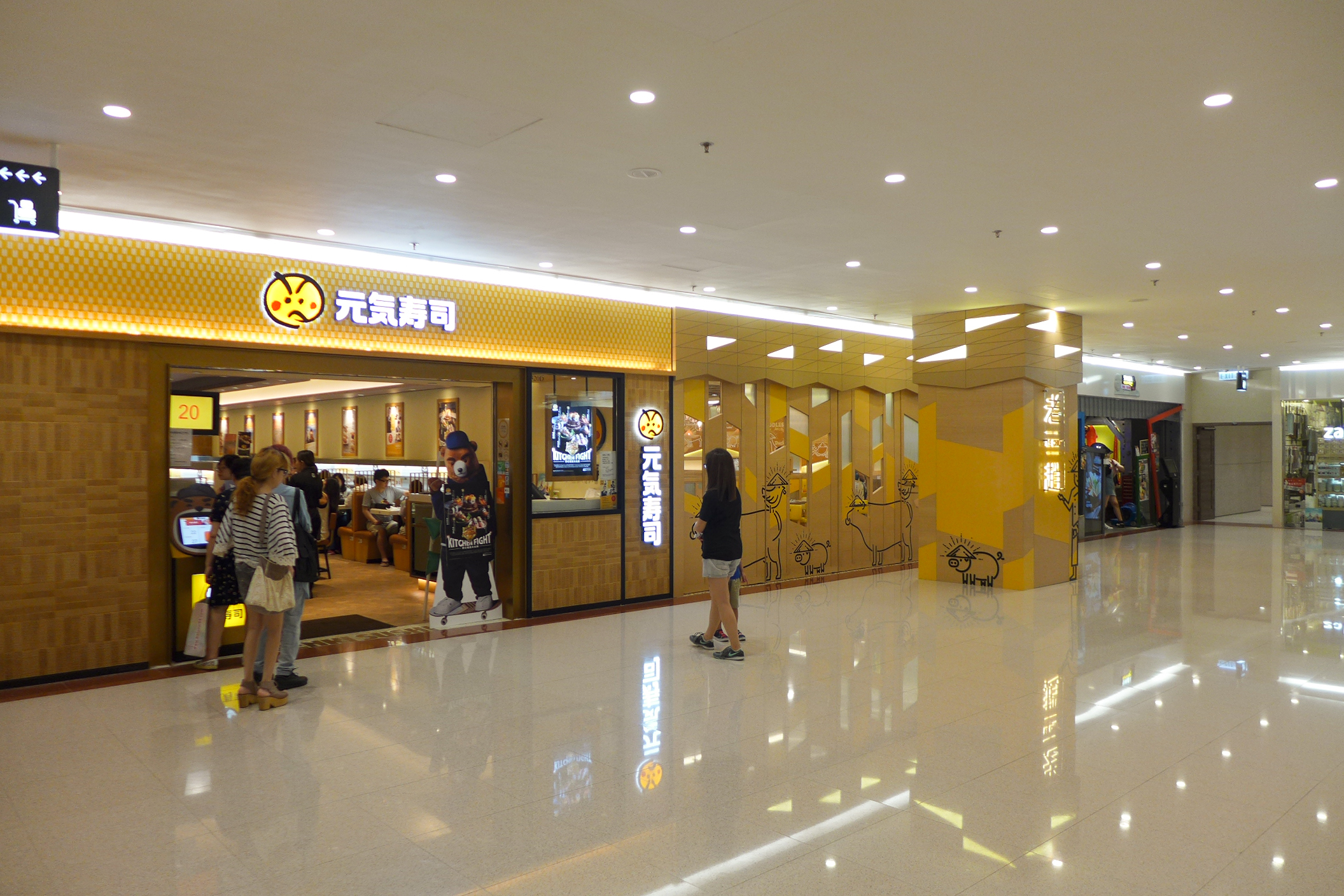 Plaza Hollywood Level 3 New Restaurants